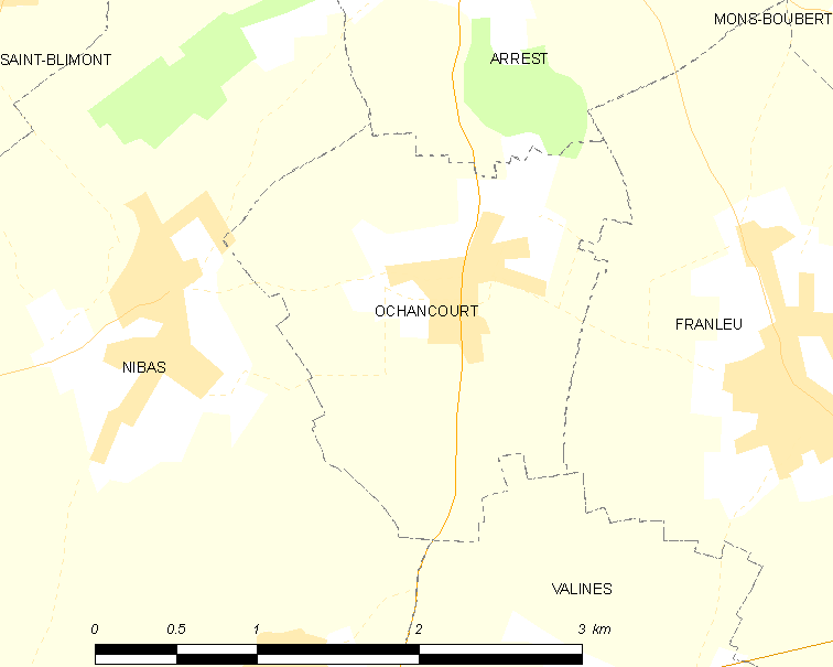 Map of French municipality Ochancourt